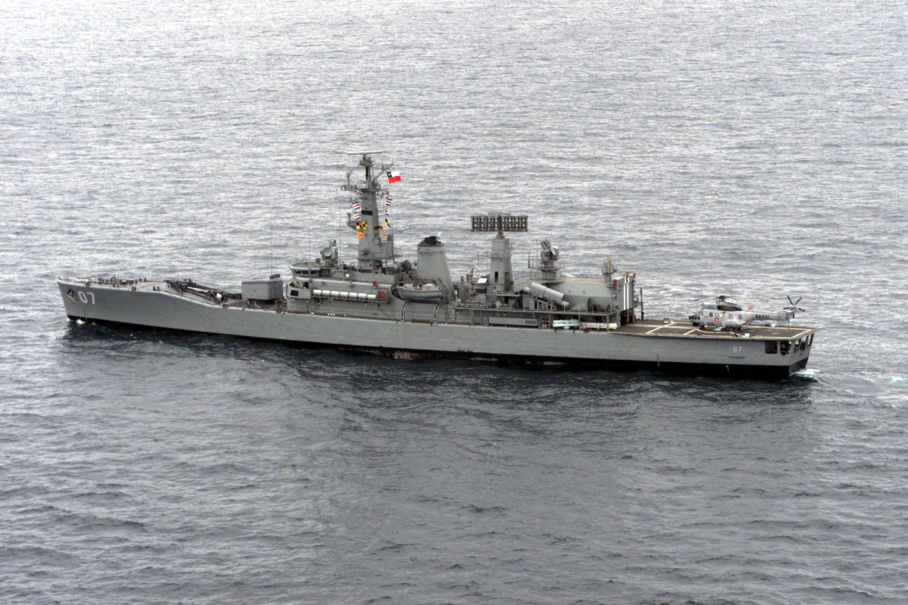 The Chilean frigate LYNCH (FFG 07) steams off the coast of Chile during Exercise TEAMWORK SOUTH '99.